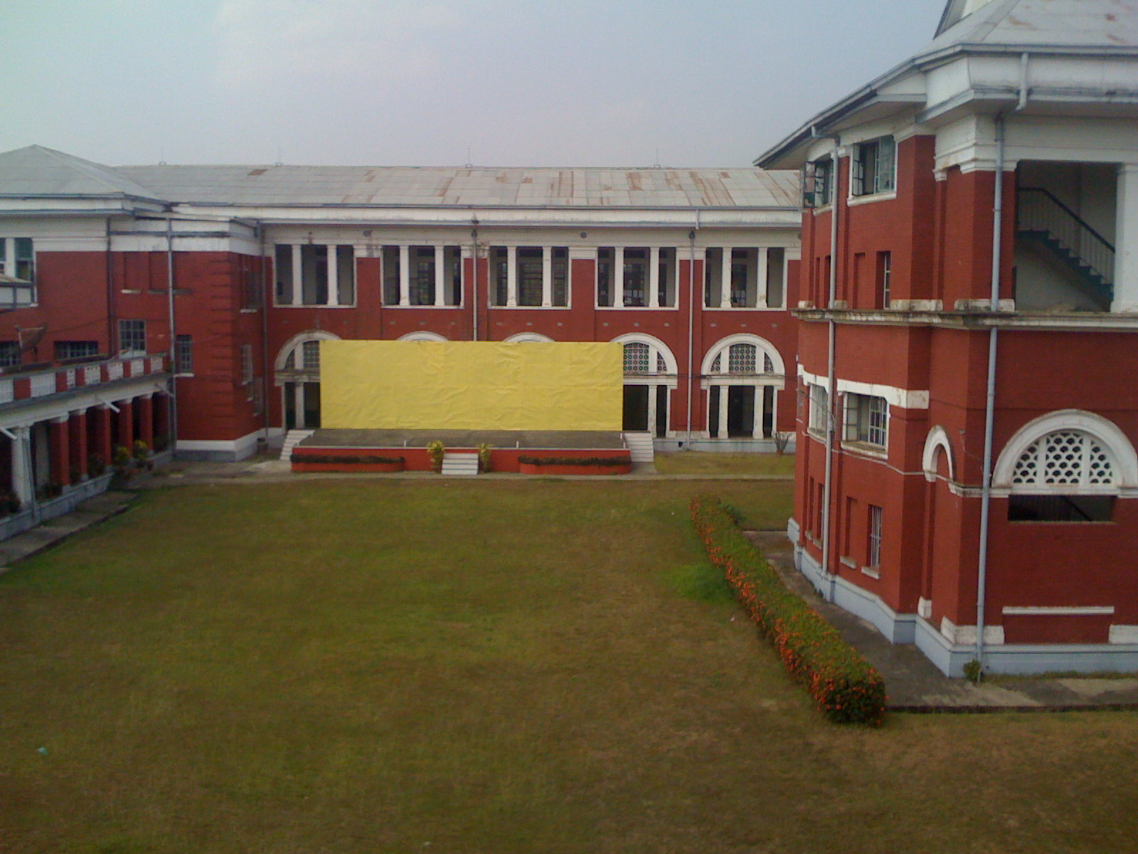 University of Medicine-1, inside